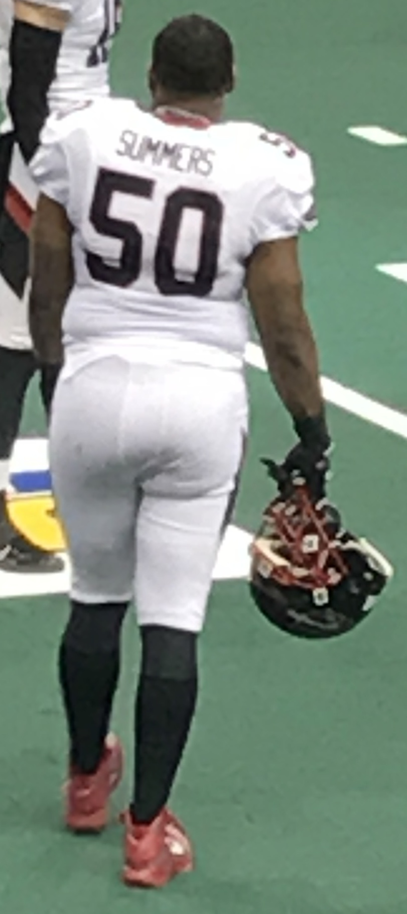 Derrick Summers pregame